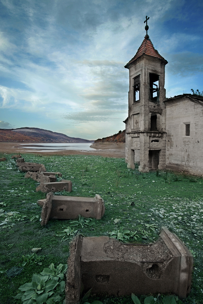 St Nikola Church in the village of Mavrovo, Republic of Macedonia